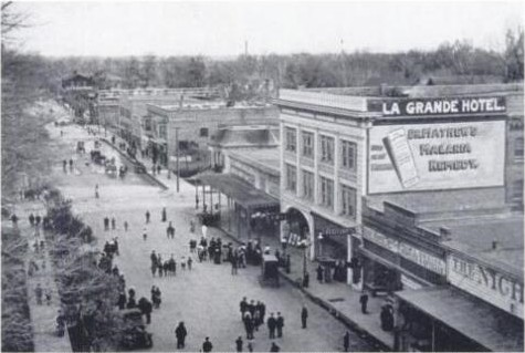 Silberstein Park Building 1914 Image courtesy of California State University, Chico's Special Collections in Meriam Library.